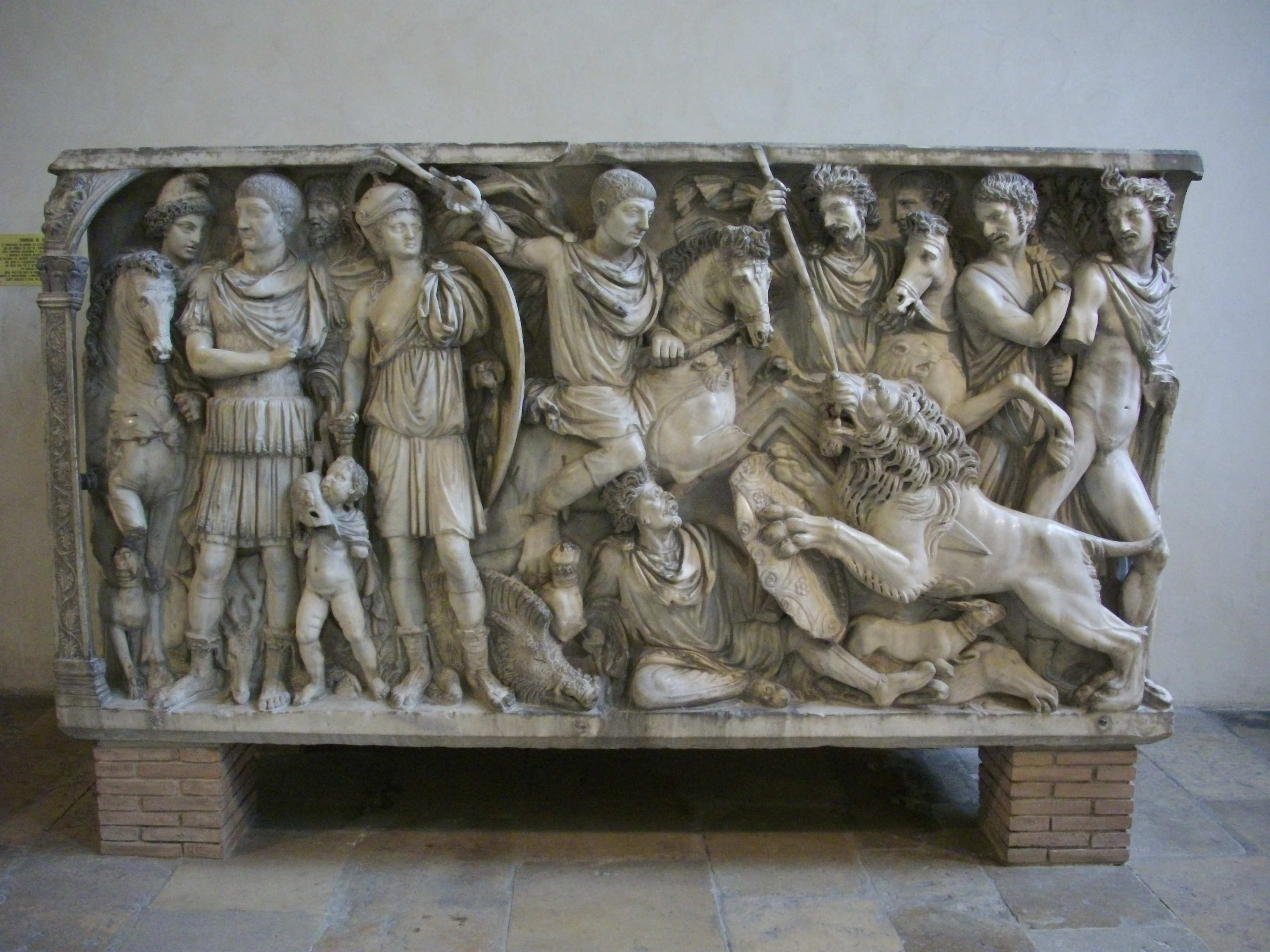 Saint Remi museum of Reims (Marne, France) ; Roman antiquities : Jovin's sarcophagi